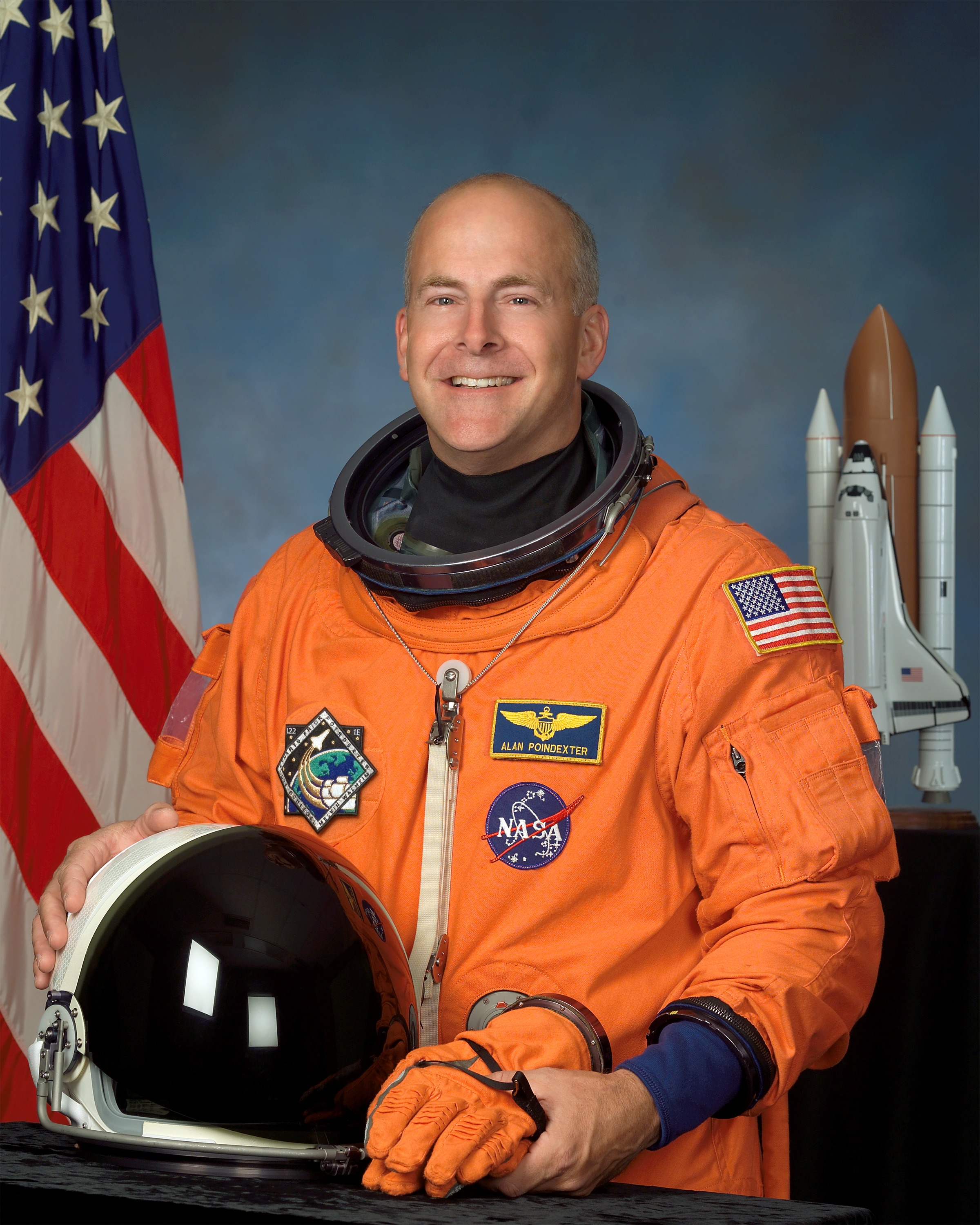 portrait astronaut Alan G. Poindexter, pilot of STS-122